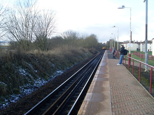 Single track at Hawkhead Station On the Paisley Canal line.